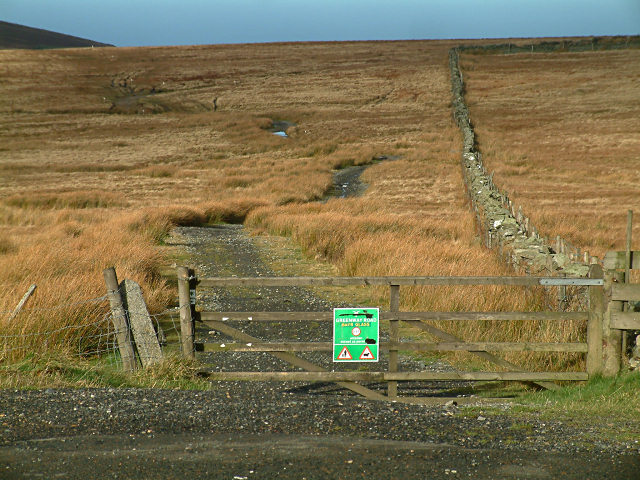 East Mountain Gate - Isle of Man. The gate protecting the 'Greenway Road' over the moorland at East Mountain Gate on the Mountain Road.